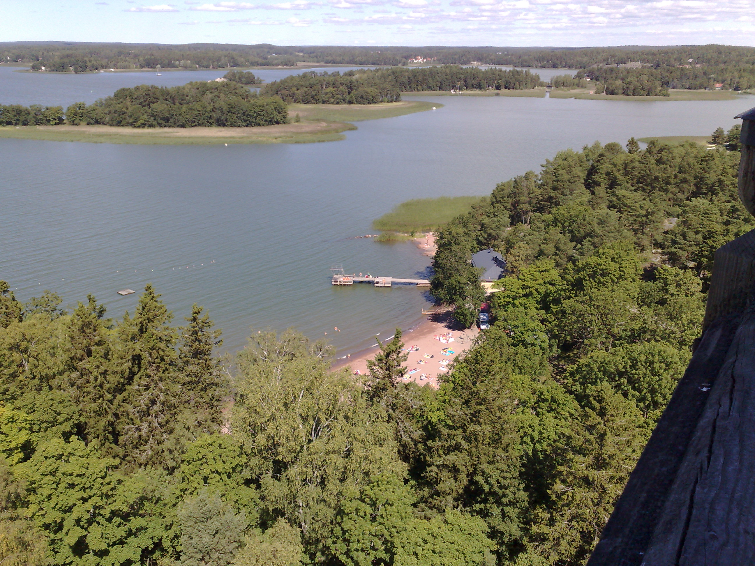 View from Church of Naantali in Naantali, Finland.